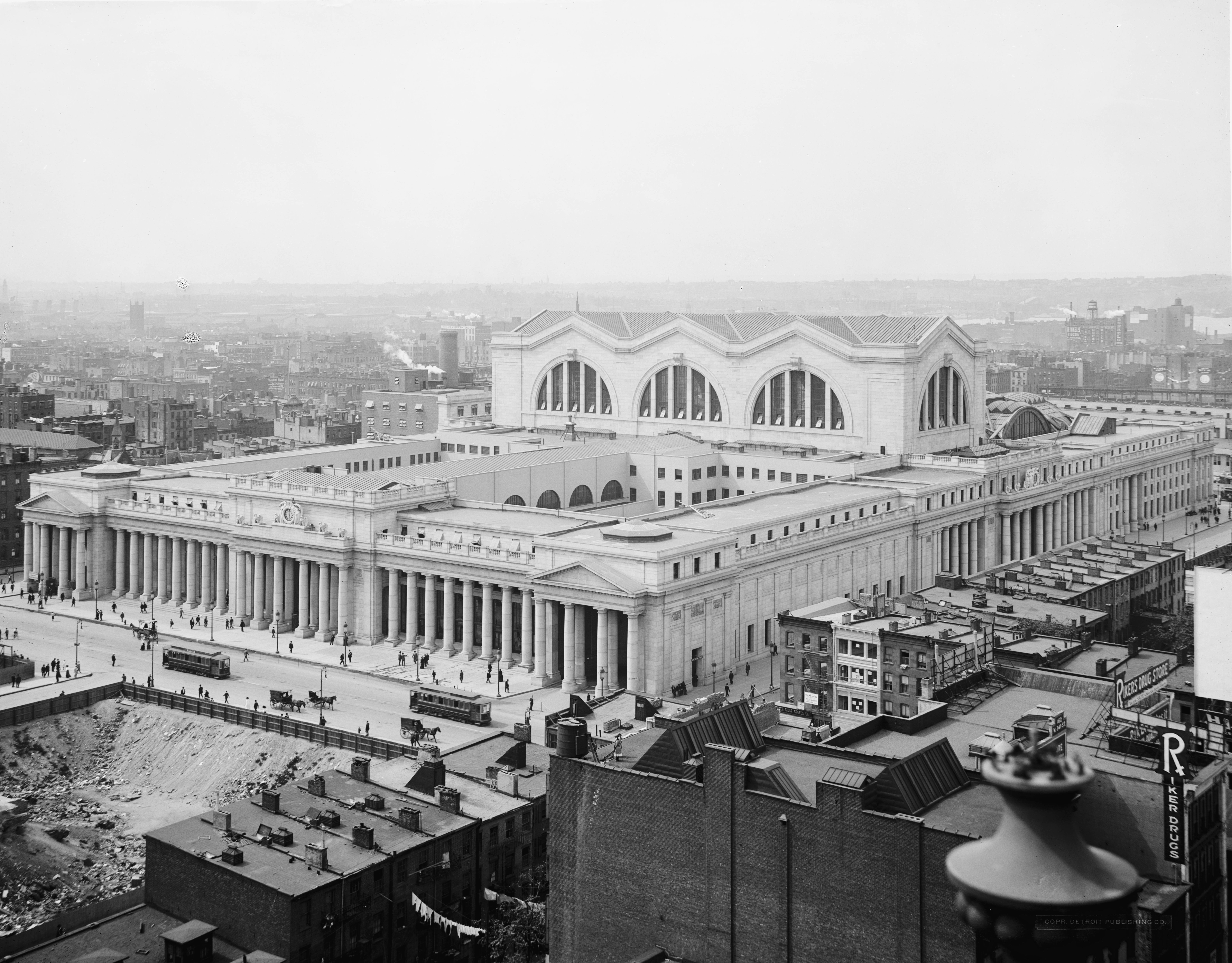 Aerial view of Pennsylvania Station from the northeast